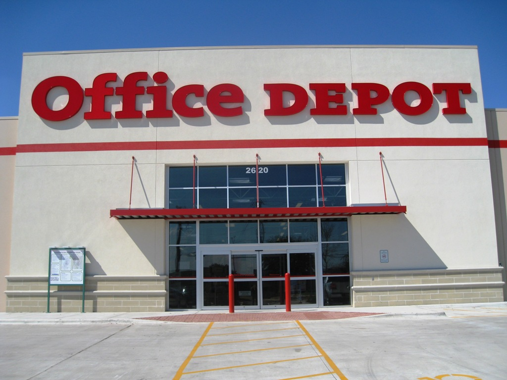 Office Depot’s “Green” store in Austin, Texas.